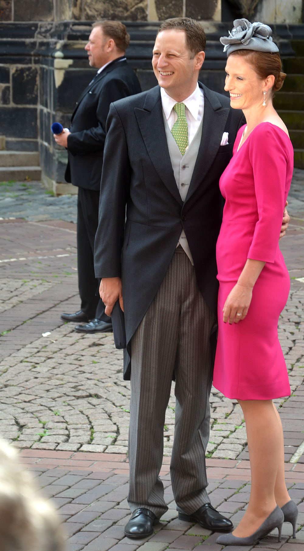 Many guests had been coming on July 8, 2017 into the Marktkirche, Hanover to the wedding of Ekaterina Malysheva and Ernst August Prinz von Hannover. Here we see Georg Friedrich, Prince of Prussia and his wife Sophie, Princess of Prussia ...